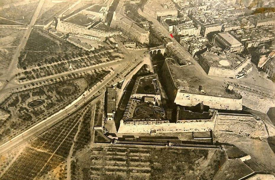 Aerial photo of the Valletta City Gate. Author unknown. Dated between 1917 and 1926 The Central Bank Building (ex-Vernon Club) does not exist yet. The gardjola at the left hand corner of the bastion in front of what became the Central Bank seems to be missing. The Duke of York Avenue (Triq Gilormu Cassar) does not seem to have been constructed yet. There is also that building to the left of the bastion corner with St James ditch which is now the bus station. Obviously the Phoenicia Hotel does not exist. The statue of Christ the King is there which means that this photo is after 1917 (4 years after the 1913 Congress) and before 1926 when Duke of York Avenue was put in. Description courtesy of Michael Sciortino and Peter Agius, Malta Vintage History